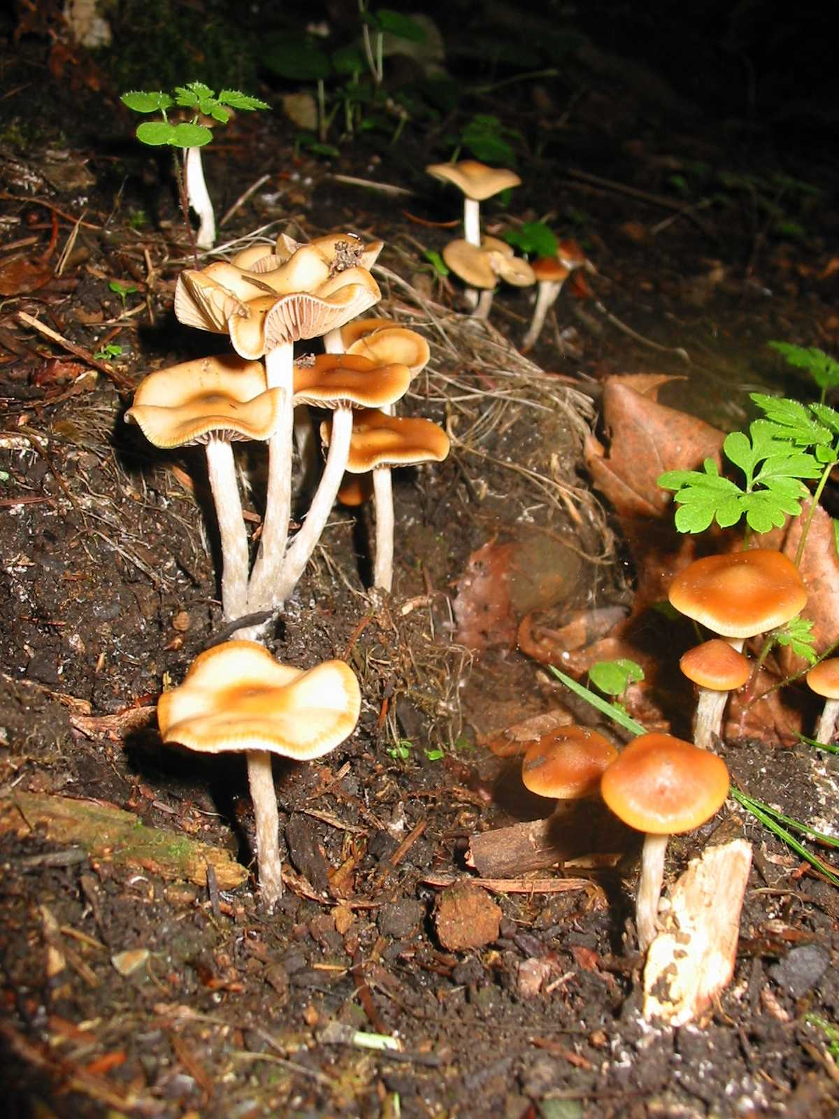 Psilocybe cyanescens in situ Seattle Washington September 2005